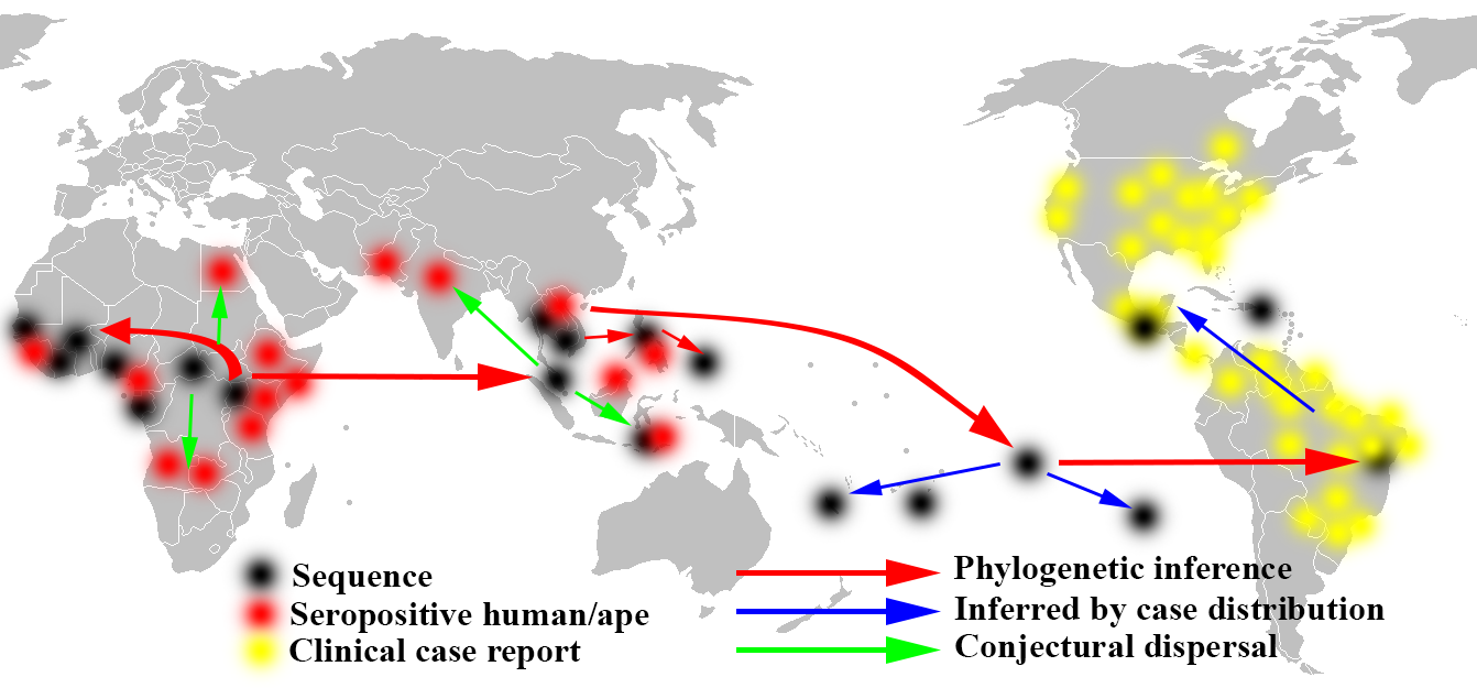 Map based upon zika phylogenetic map figure 2 of "Zika virus: a previously slow pandemic spreads rapidly through the Americas" by Derek Gatherer and Alain Kohl, Journal of General Virology. This map was redrawn by me with background from commons and arrows, dots, and text added in Photoshop. This pieced Pacific-centered map needs to be replaced with one based on File:Blank map of the world (Robinson projection) (162E).svg or File:Indo-Pacific biogeographic region map-en.svg.